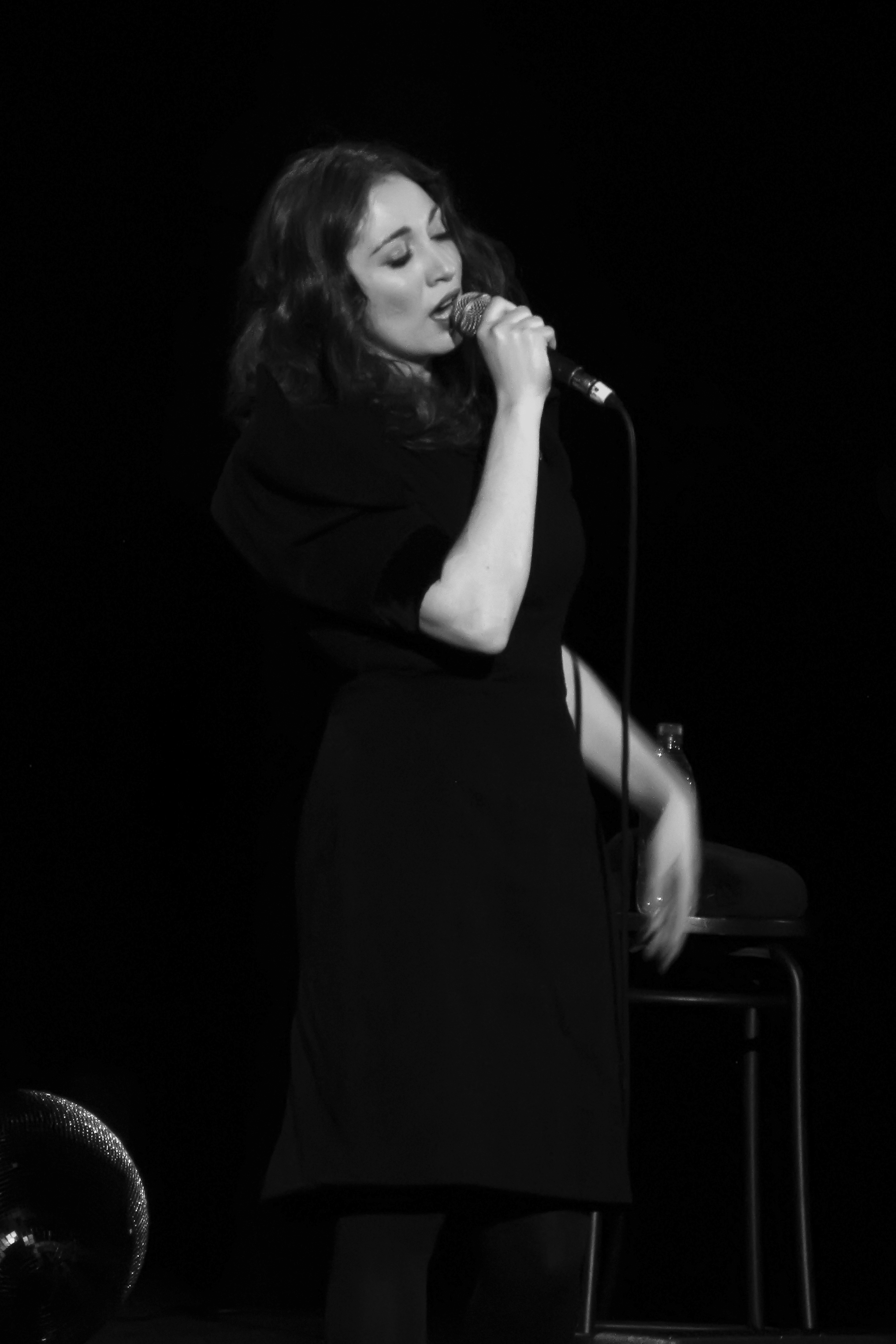 Regina Spektor singing during a concert at the Hammersmith Apollo arena in west London in December 2009 as part of a UK tour to promote her new album, Far.